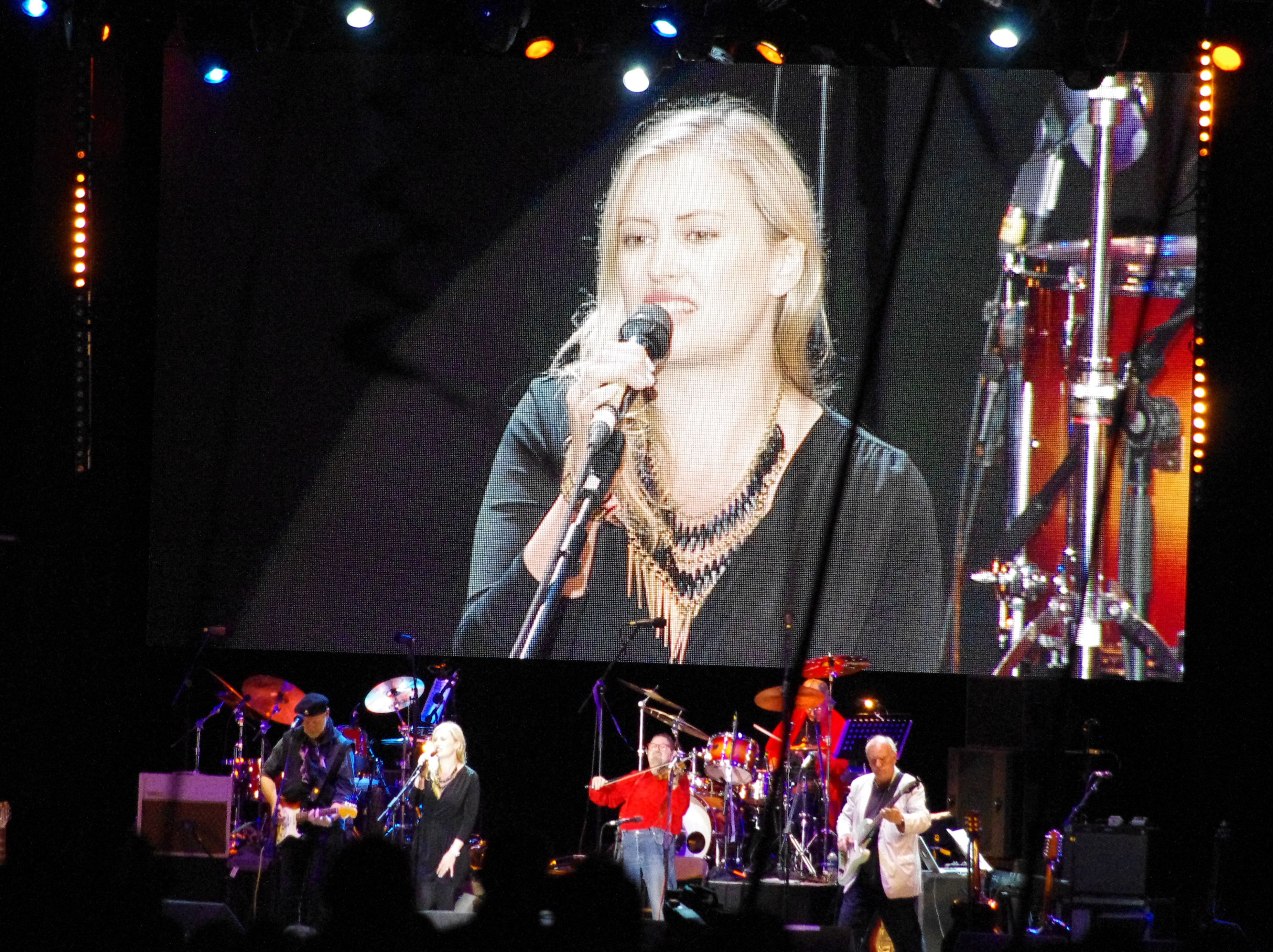 With Kami Thompson (daughter of Richard and Linda Thompson) covering the Sandy Denny songs.